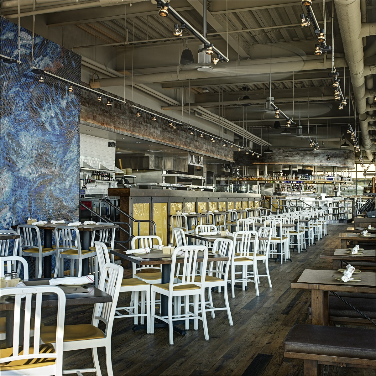 The Legal Sea Foods dining room at their restaurant in the South Boston (Massachusetts, USA) waterfront.